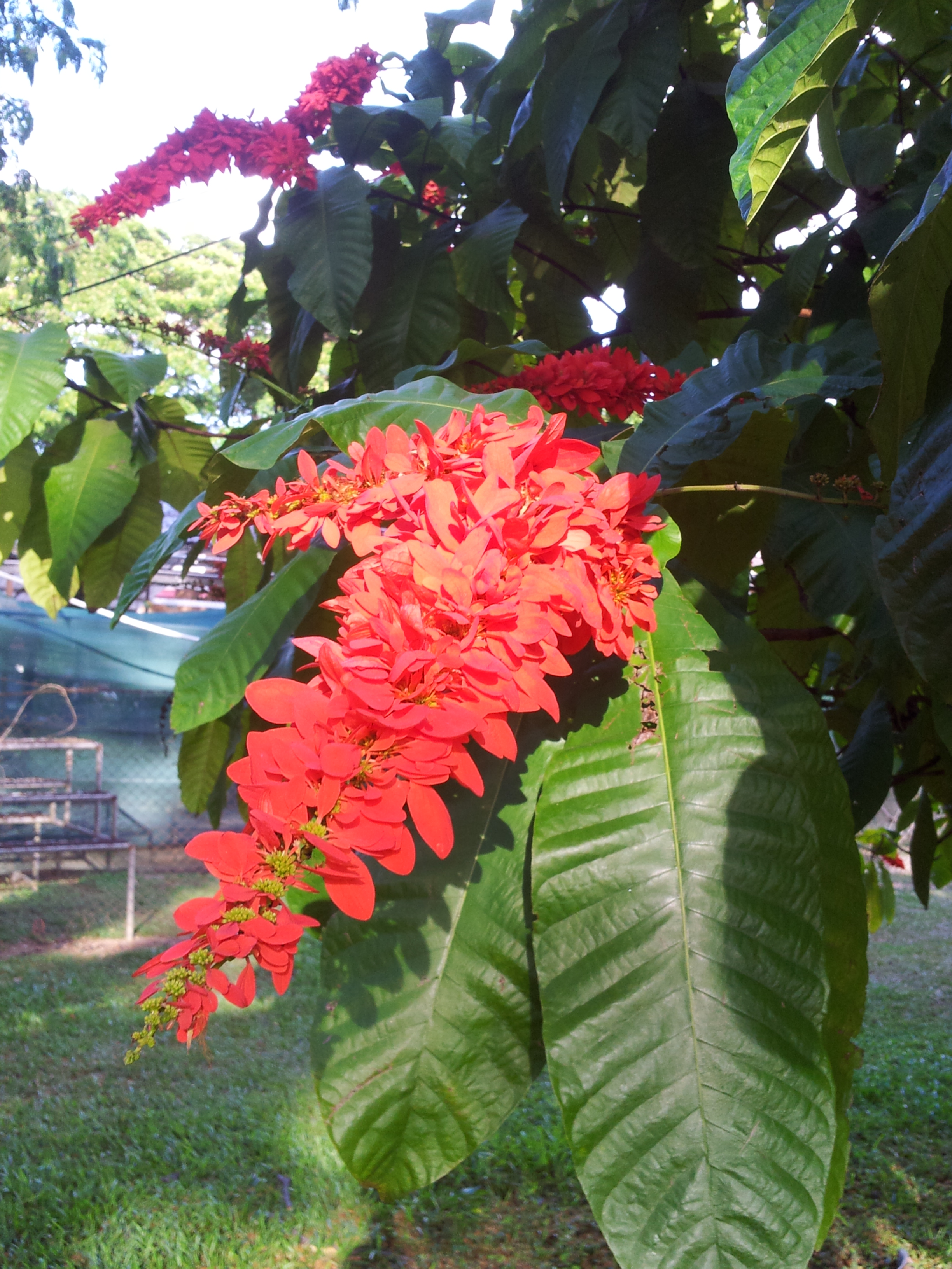 This is the national flower of Trinidad and Tobago